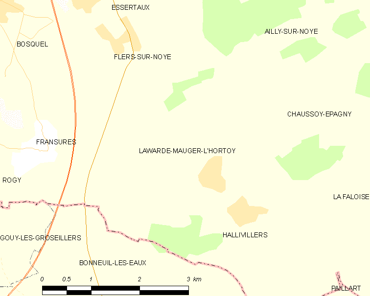 Map of French municipality Lawarde-Mauger-l'Hortoy